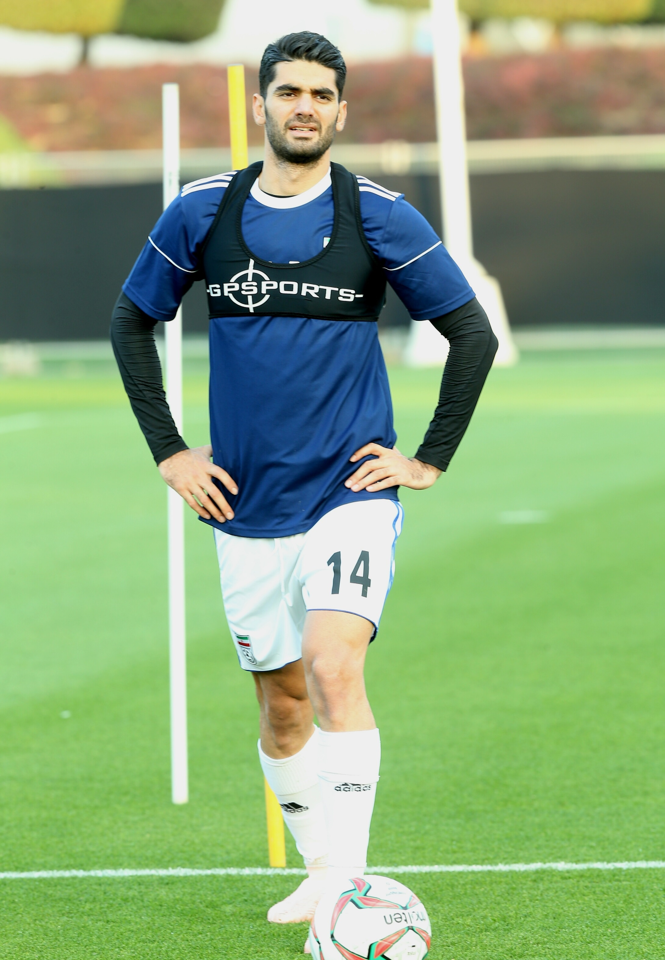 Ali Karimi